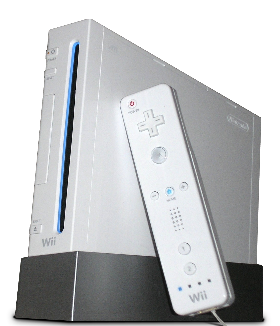 Wii with Wiimote (white background).